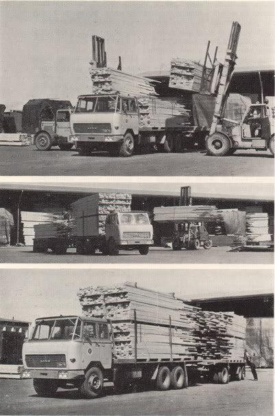 Sisu KB-112 advert from 1963.